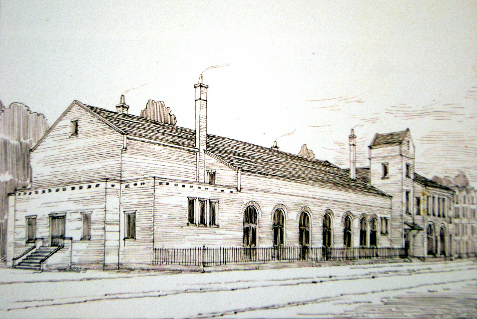 Prince of Orange (building) Venlo